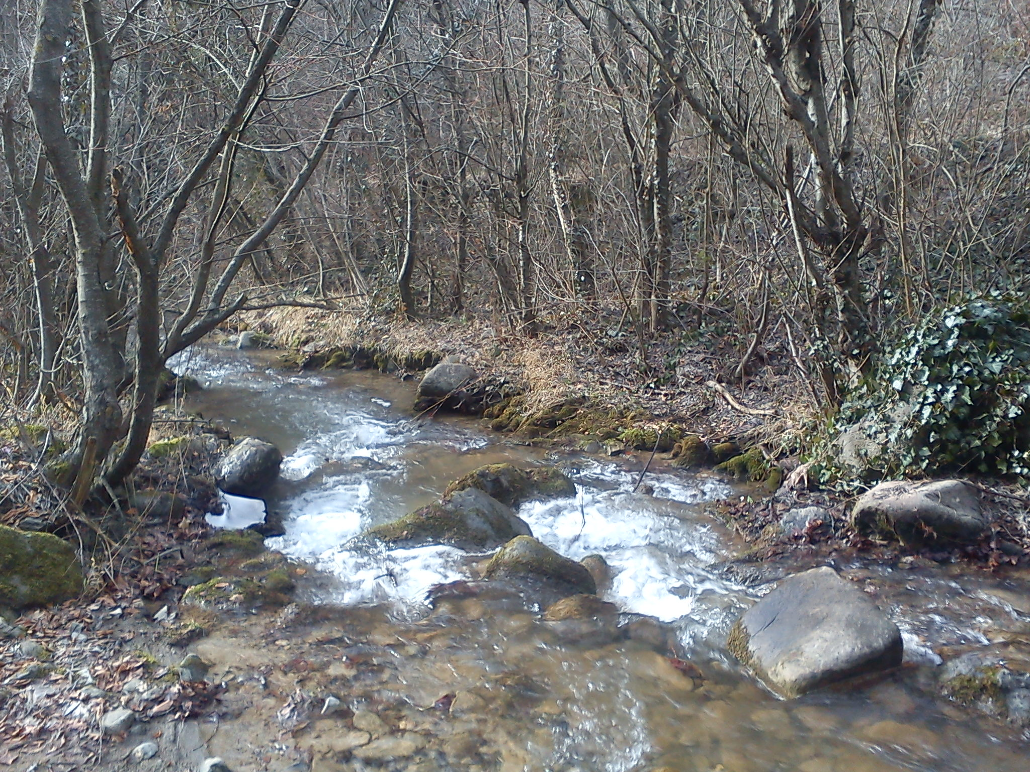 Banjanska River, Macedonia